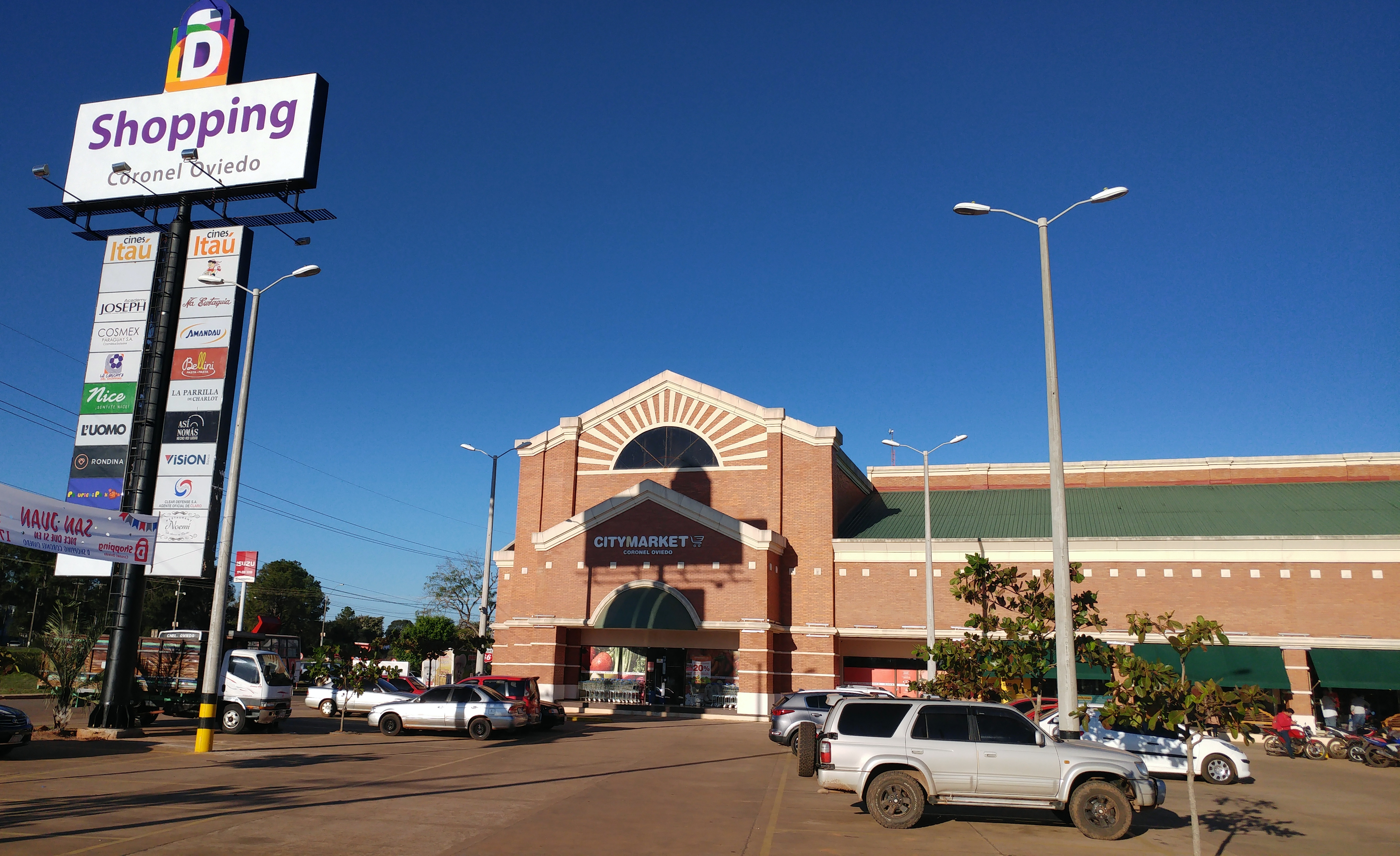 D Shopping in Coronel Oviedo, Paraguay.